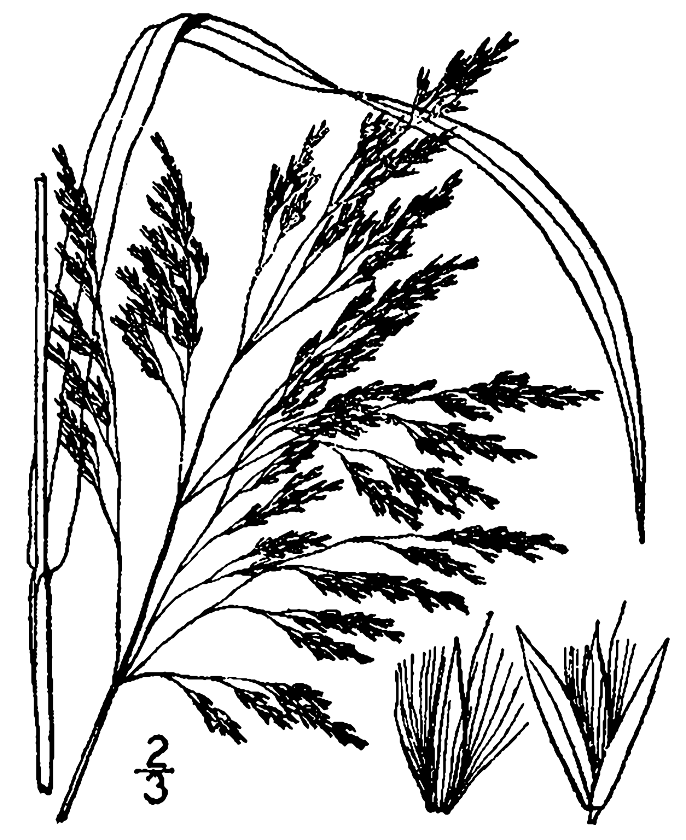 Calamagrostis canadensis (Michx.) P. Beauv. var. macouniana (Vasey) Stebbins - Macoun's reedgrass - listed in the flora as Calamagrostis macouniana